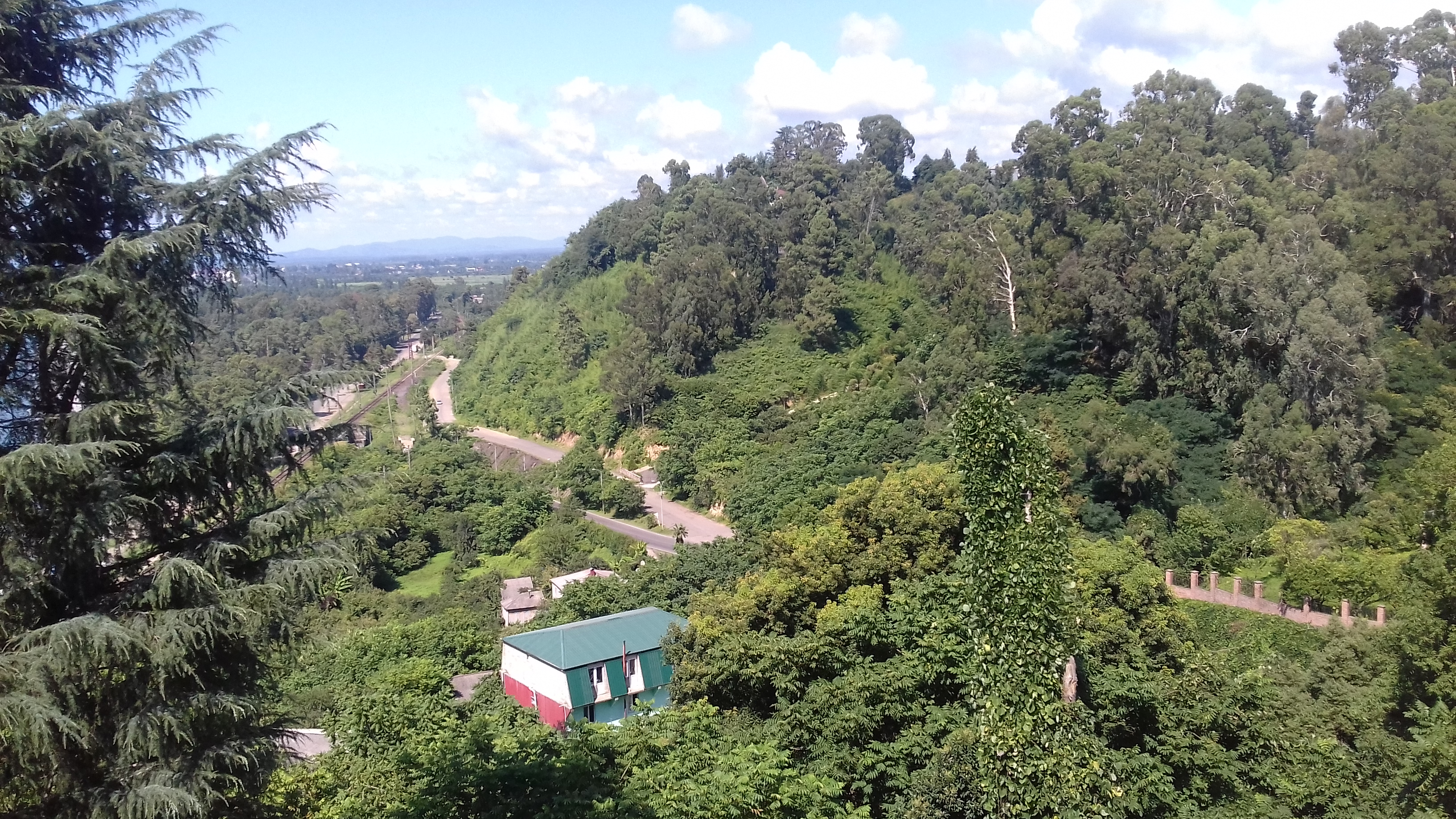 View of the environs of Tsikhisdziri from the Petra Fortress walls. Adjara, Georgia.